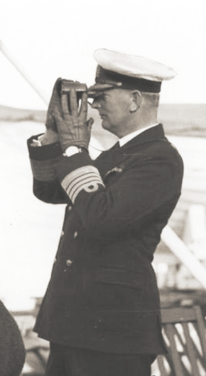 Rearadmiral Józef Unrug in 1930 (that time in the rank of Captain)